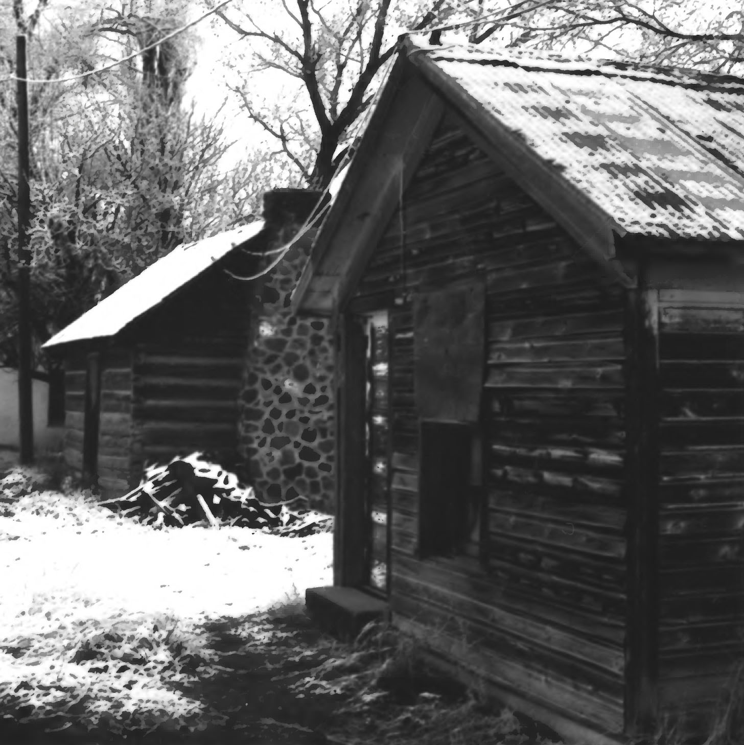 Log cabin and shed on the Colter Ranch Historic District